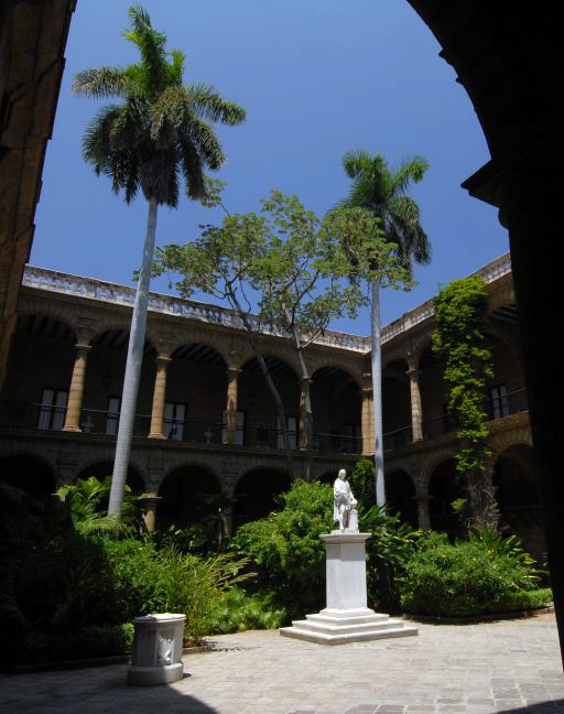 Palacio_de_los_Capitanes_Generales